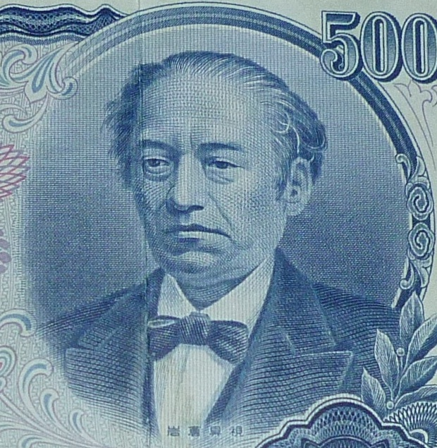 Japanese 500 yen note series B - crop of just Iwakura Tomomi